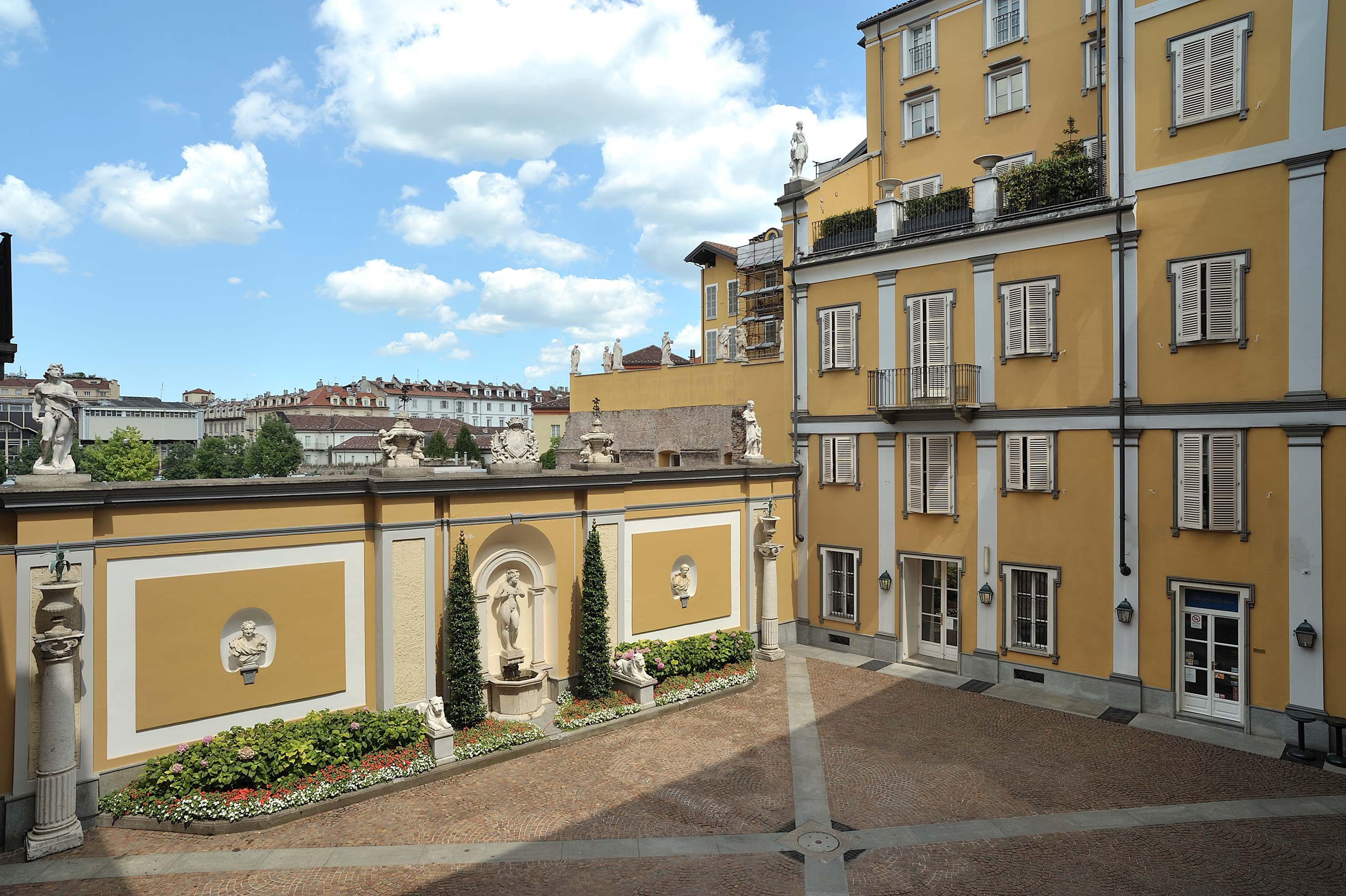 The museum